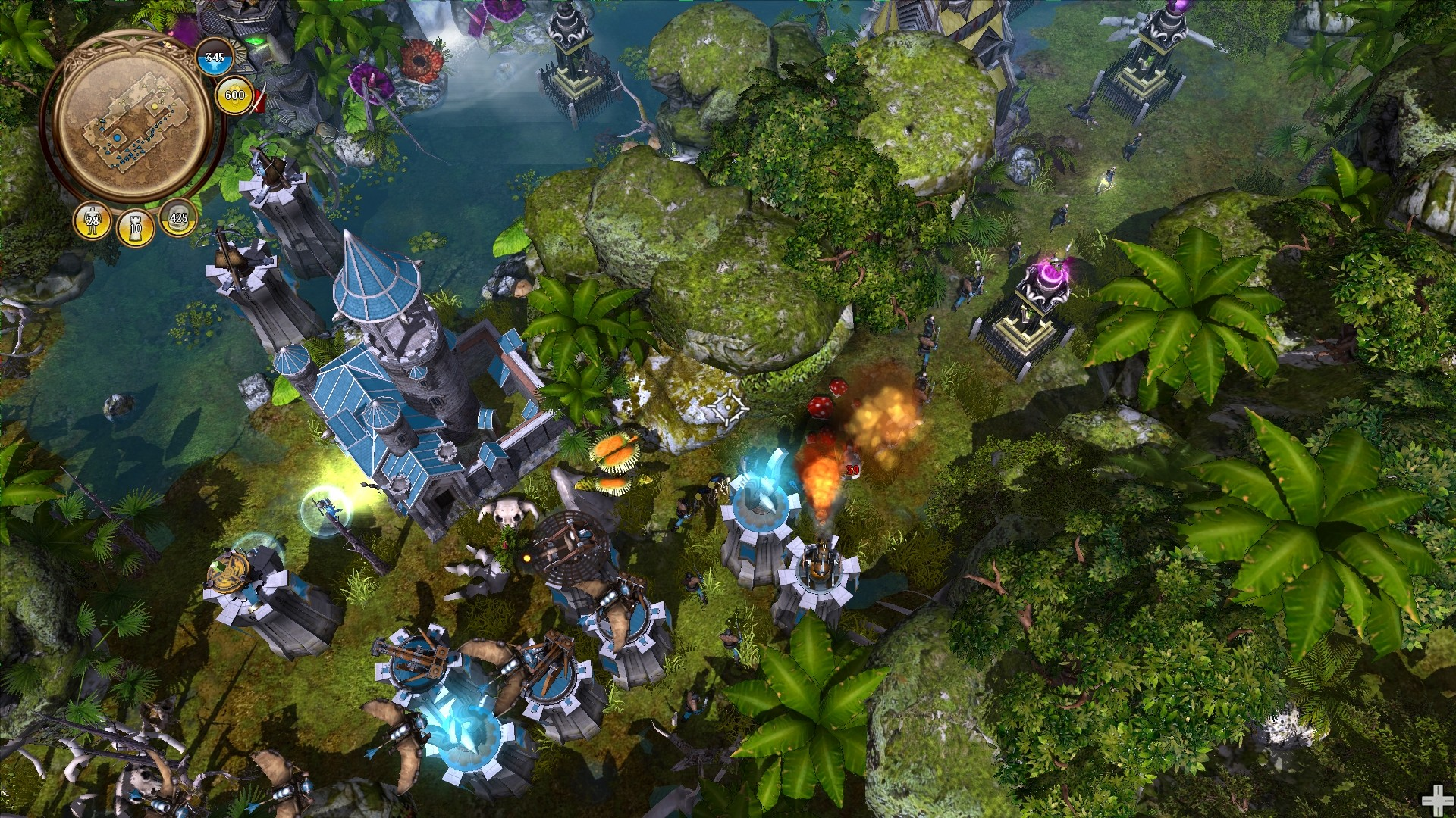 Screenshot from the video game Defenders of Ardania